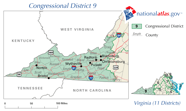 Map of Virginia's 9th congressional district. Downloaded from and converted to PNG.